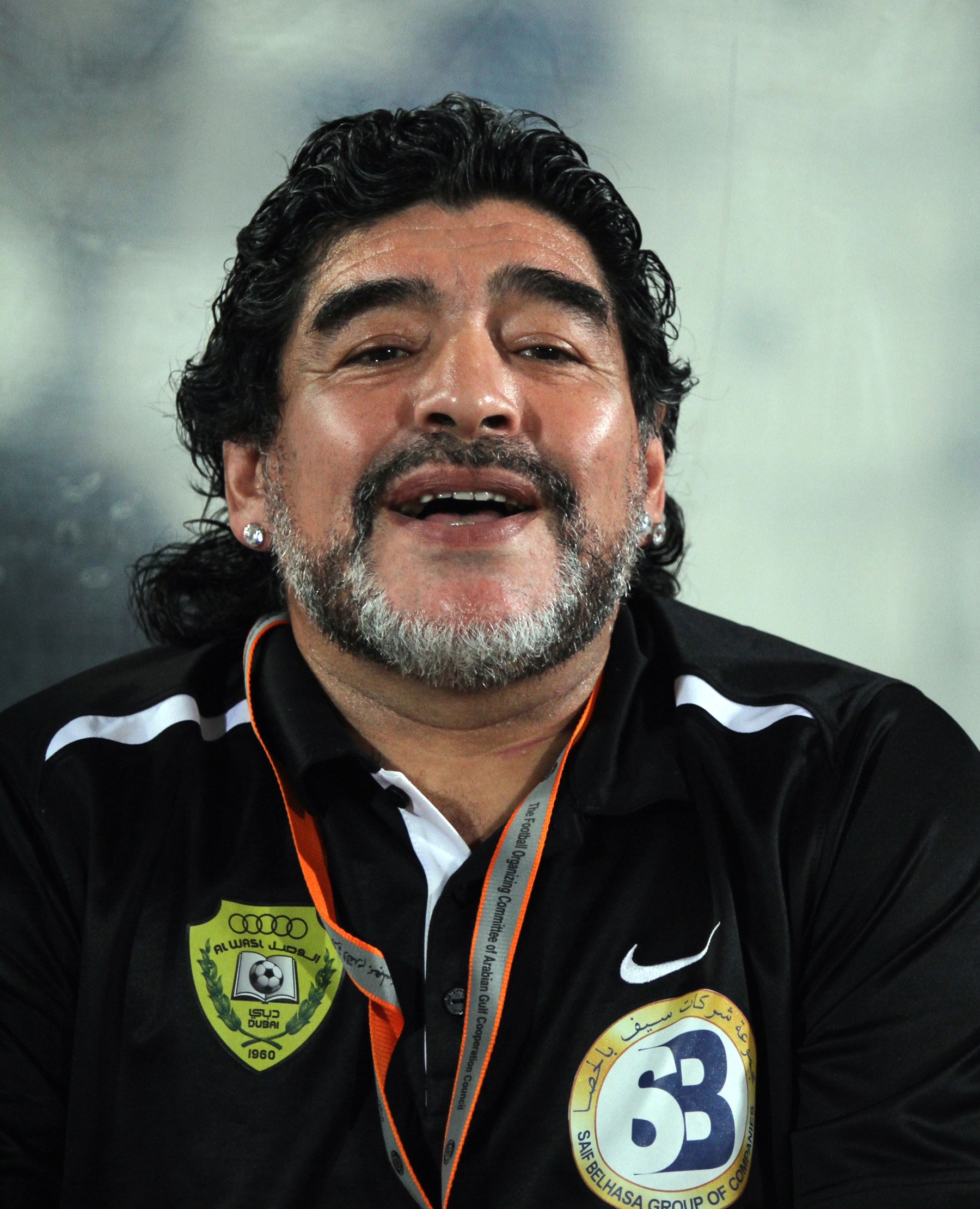 Al Wasl's Argentinian coach Diego Maradona during his team's GCC Champions League semifinal match against Al Khor. Picture by Vinod Divakaran